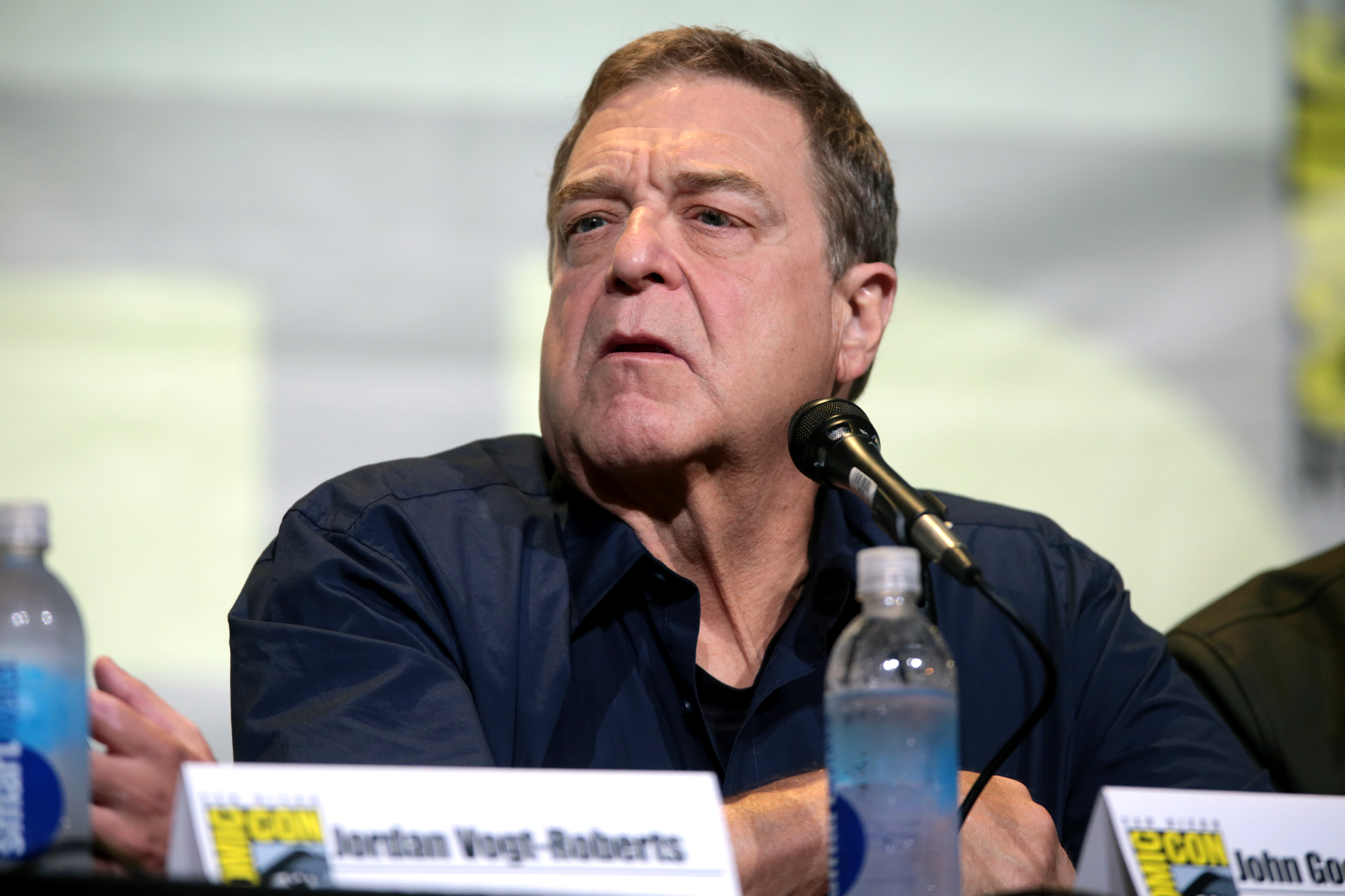 John Goodman speaking at the 2016 San Diego Comic Con International, for "Kong: Skull Island", at the San Diego Convention Center in San Diego, California.